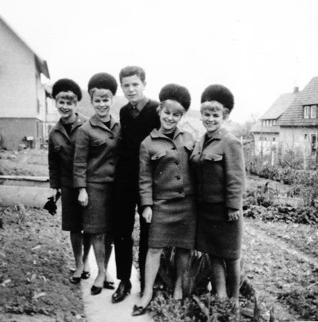 The Jacob Sisters, a German pop music quartet, in Ebhausen, Baden-Württemberg, Germany.